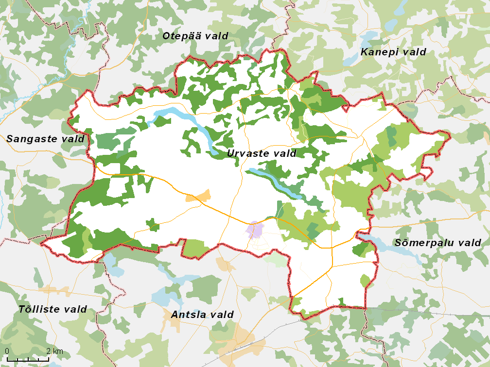 Map of municipality in Estonia